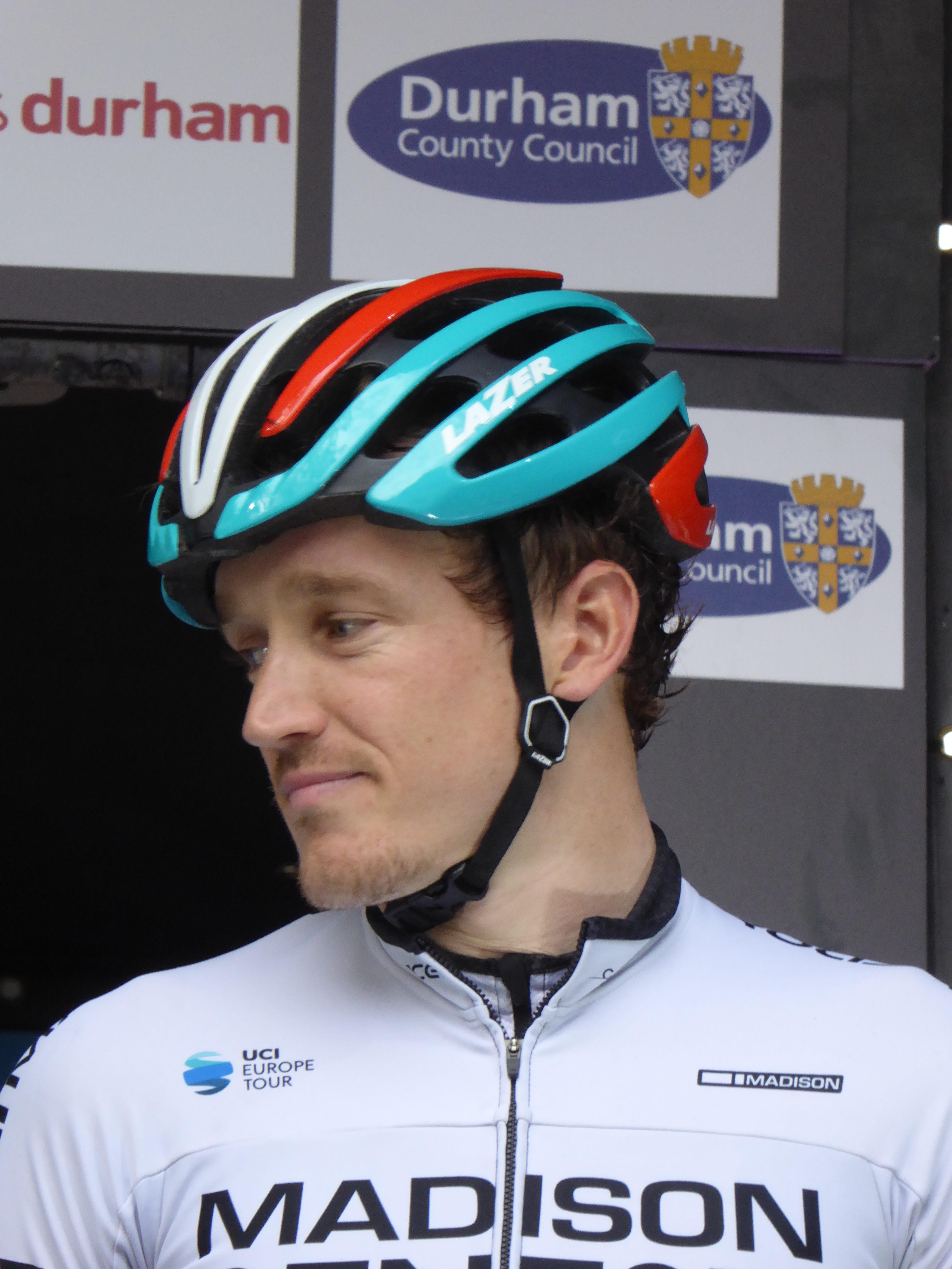 Tobyn Horton (Madison Genesis), prior to Round 9 of the Tour Series in Durham, on 27 May 2017.